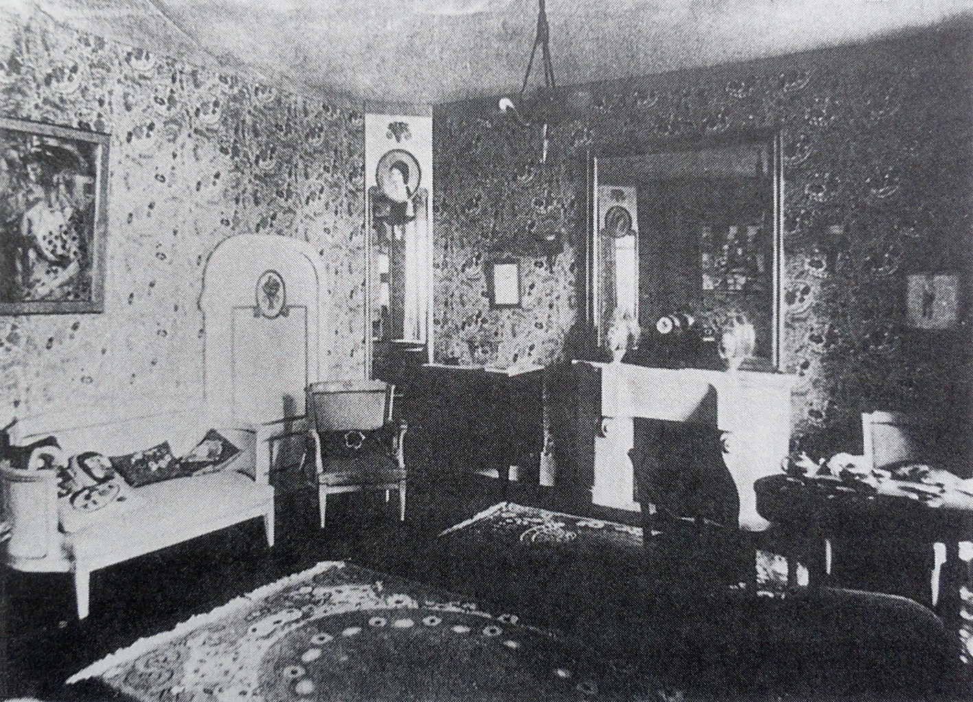 La Maison Cubiste, Le Salon Bourgeois, Salon d'Automne, 1912, Paris. Jean Metzinger's Femme à l'Éventail, 1912, can be seen on the left wall; reflected in the mirror, Fernand Léger's Le passage à niveau (The Level Crossing), 1912. Towards the center-left is a portrait of a woman by Marie Laurencin